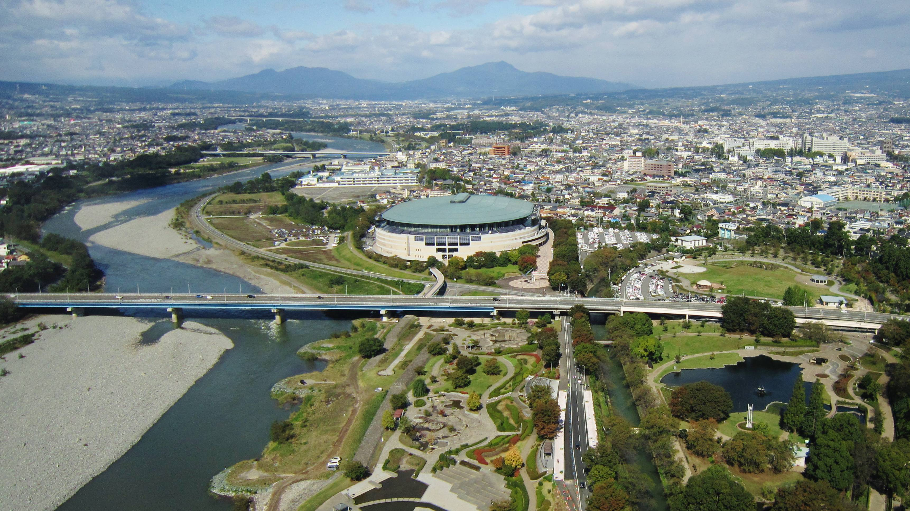 Chūō-ōhashi Bridge, view from Gunma Prefectural Government Building (Maebashi, Gunma)..